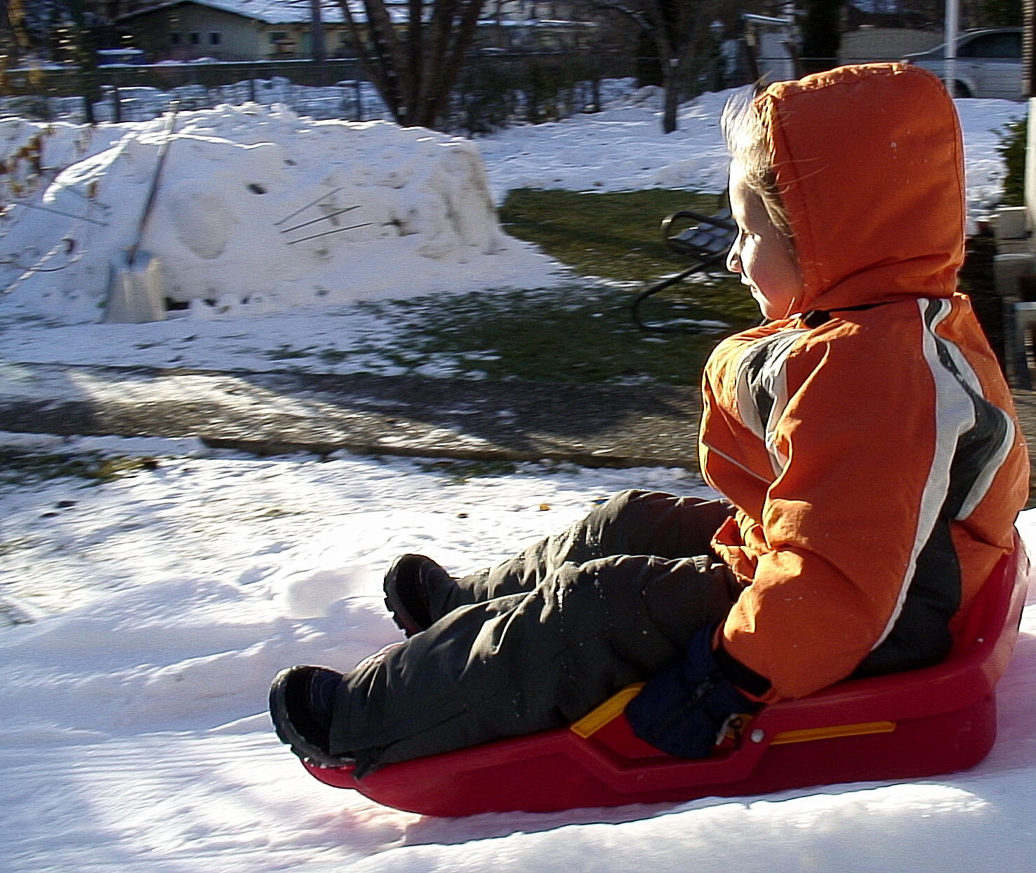 Lugeing with a sleigh, Carinthia, Austria